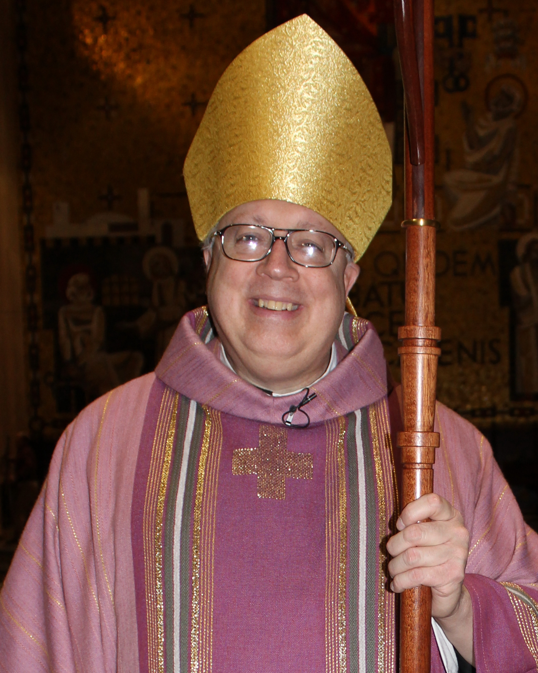 Bishop Binzer, photographed after Mass on Sunday, March 18, 2012, Cathedral of St. Peter-in-Chains, Cincinnati, OH.